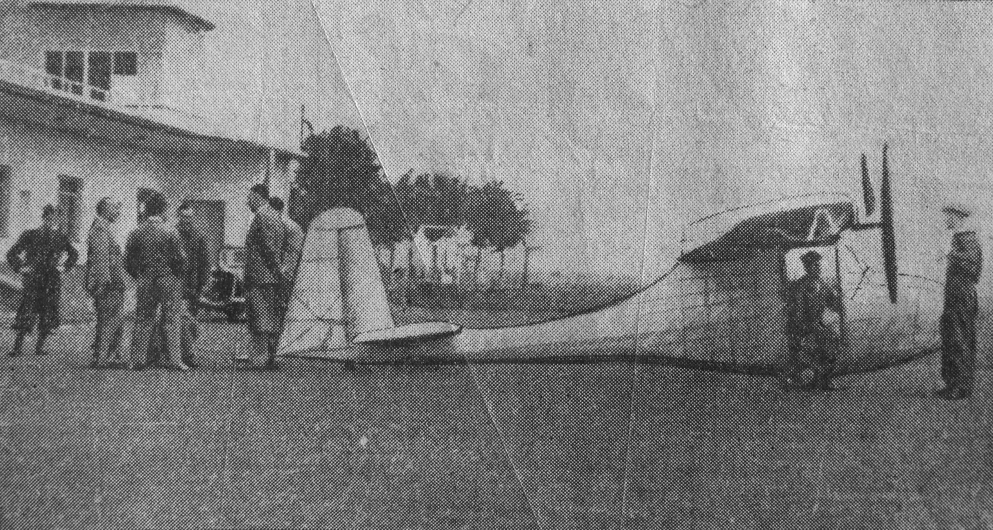 The Pedaliante, designed and built by Italian-American aerospace engineer and aviation pioneer Enea Bossi sr, 1937.